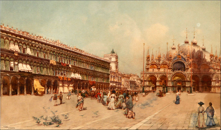 "Plaza de San Marcos, Venezia", watercolor, ca. 1886